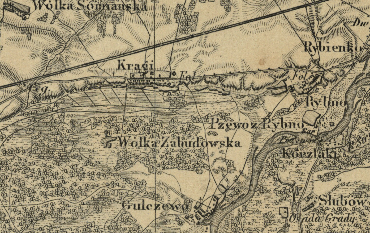 Map of village Kręgi in Poland and neighborhood, ca. 1838